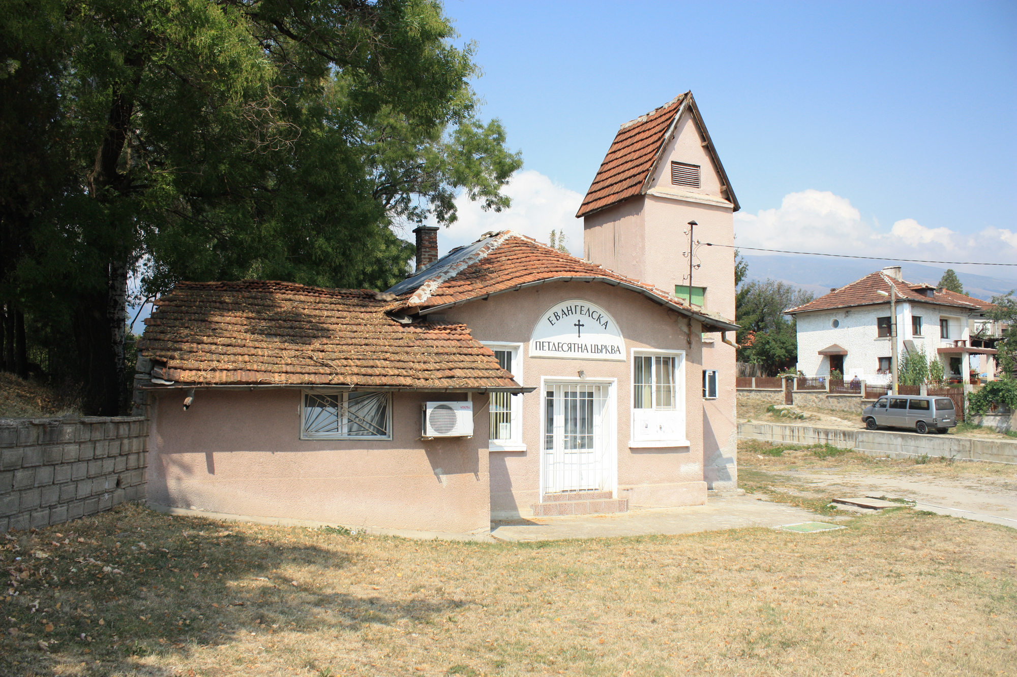 Evangelical Pentecostal Church in Pirdop, Bulgaria